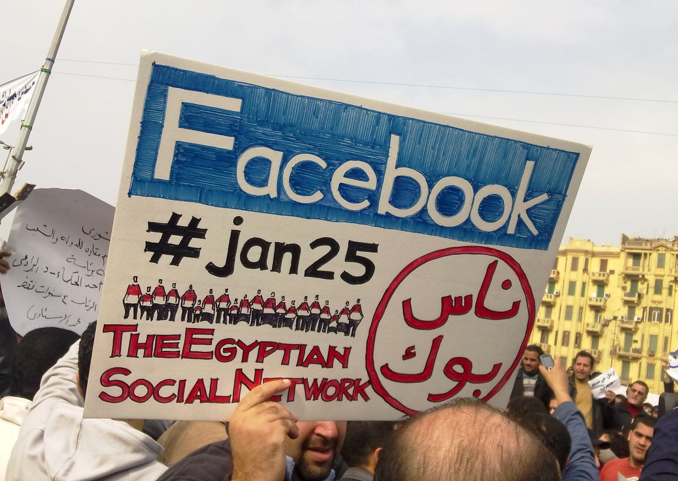 a man during the 2011 Egyptian protests carrying a card saying "Facebook, #jan25, The Egyptian Social Network" illustrating the vital role played by social networks in initiating the uprising.